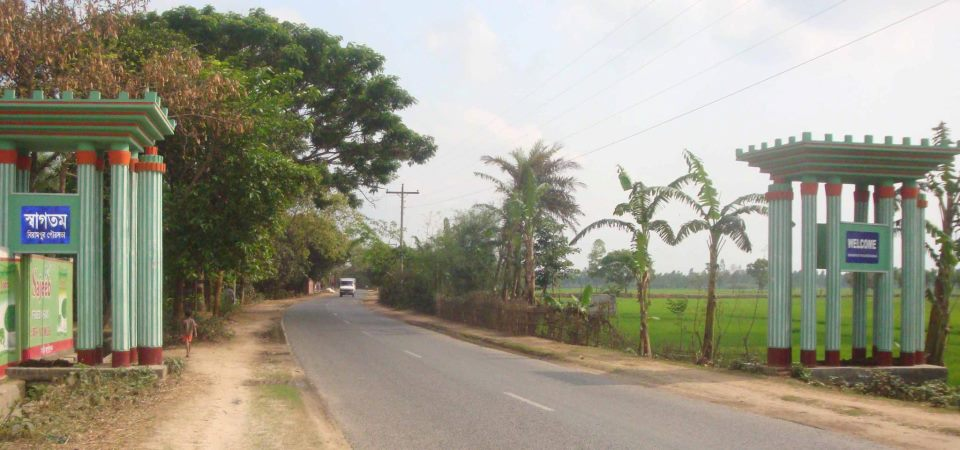 Welcome gate of Birampur. Welcome to all